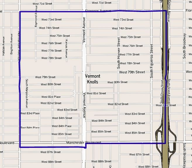 Outline map of Vermont Knolls, California, as drawn by the Los Angeles Times. Other information Boundary map as drawn by the Los Angeles Times on a CC-by-SA background. Note at bottom right of map on the L.A. Times website noted above says "CC-by-SA" (which gives permission to use the map). There is a link there to which explains the meaning thereof. The base map is credited to The Times spells all this out at